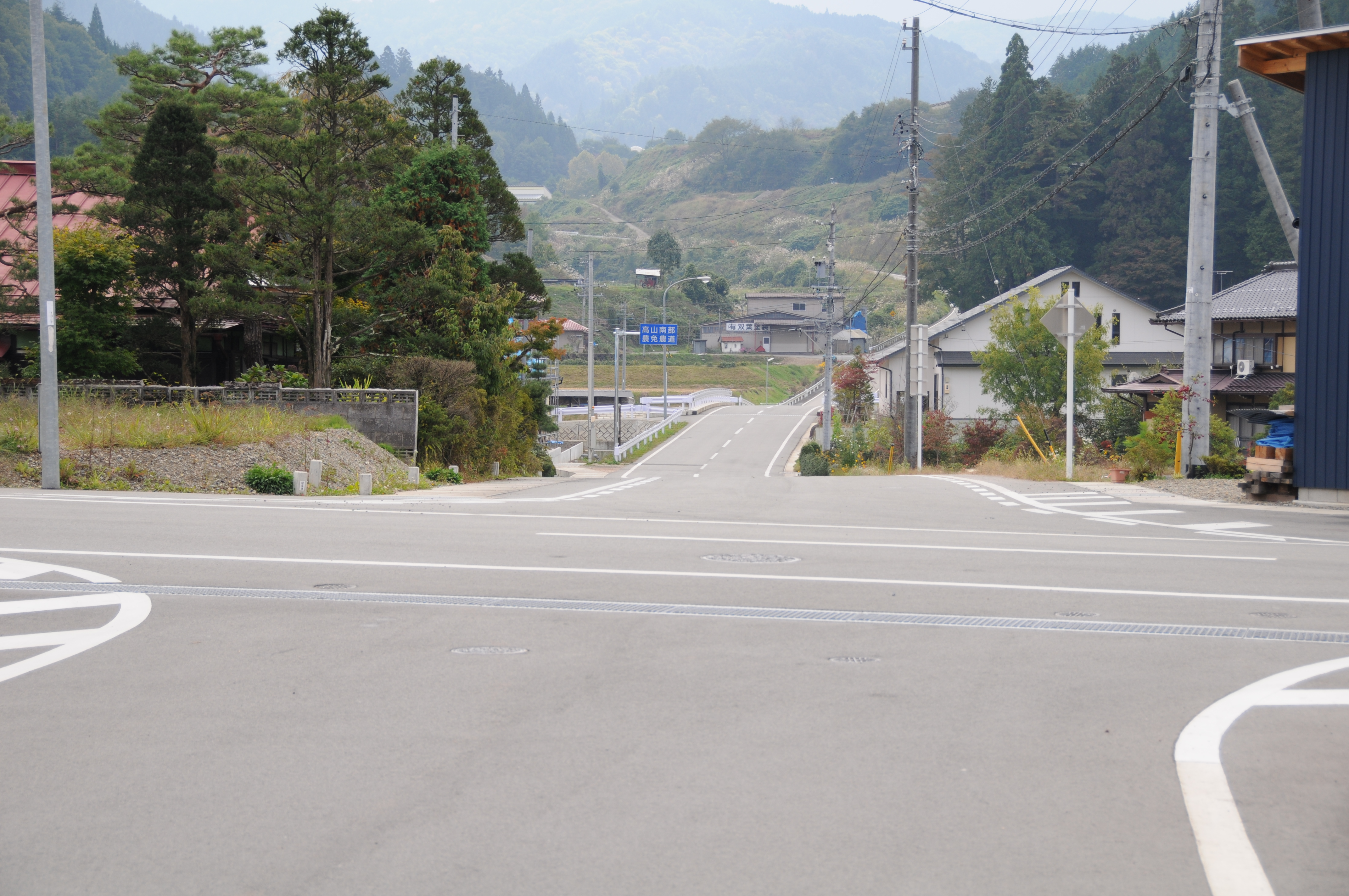 Intersection where R-361 Intersects South Takayama Public Fields' Road in Urushigaitou-machi